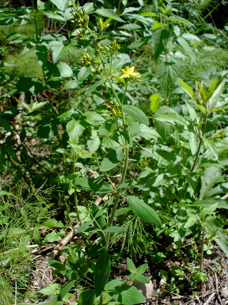 Hypericum hirsutum (Unterfranken, Germany)